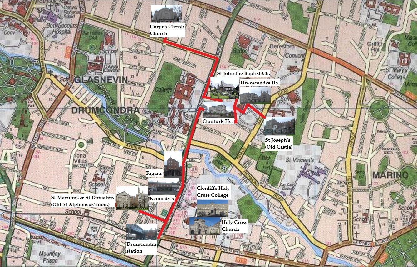 Map with monuments in Drumcondra, Dublin City (Ireland), including the Holy Cross College in Clonliffe.